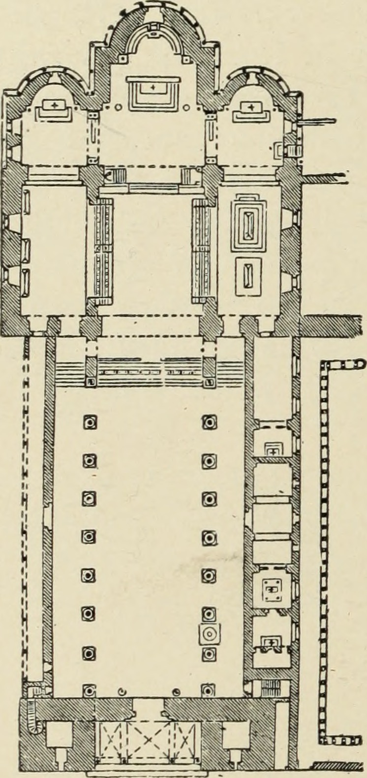 Title: A history of architecture in Italy from the time of Constantine to the dawn of the renaissance Year: 1901 (1900s) Authors: Cummings, Charles Amos, 1833-1905 Subjects: Architecture Publisher: Boston, New York, Houghton Mifflin and company Text Appearing Before Image: reased by thebreaking out of a fire in 1811, which de-stroyed the roofs of the choir and its sidechapels and much of the interior decora-tion, columns, marble plates, mosaics, etc.The church was then taken in hand, andduring the second quarter of the centurywas very carefully and conscientiously re-paired and restored.^ Externally the cathedral of Monrealehas much resemblance to that of Cefalii.This resemblance is particularly markedin the facade, where the two square flank-ing towers, projecting well forward onfront and sides enclose between thema deep porch with three broad, stilted,pointed arches supported on columns.Above the porch the wall is crossed by aninterlacing blind arcade of pointed arches,in the middle of which is a single plainpointed window. The wall at the back ofthe porch has an elaborate but not beau-tiful central doorway, with three ordersof jamb columns and arches, enclosing the famous bronze doors ofBonanno of Pisa, already described in a previous chapter. Of the Text Appearing After Image: J to zo Fig. 310. Monreale. Cathedral 1 Boito tells us that between the years 1811 and 1850 nearly half a million ducats werespent on the restorations, of which sum about thirty thousand ducats were given to therepairing of the mosaics. Boito, op. cit., p. 107. SICILIAN ARCHITECTURE 107